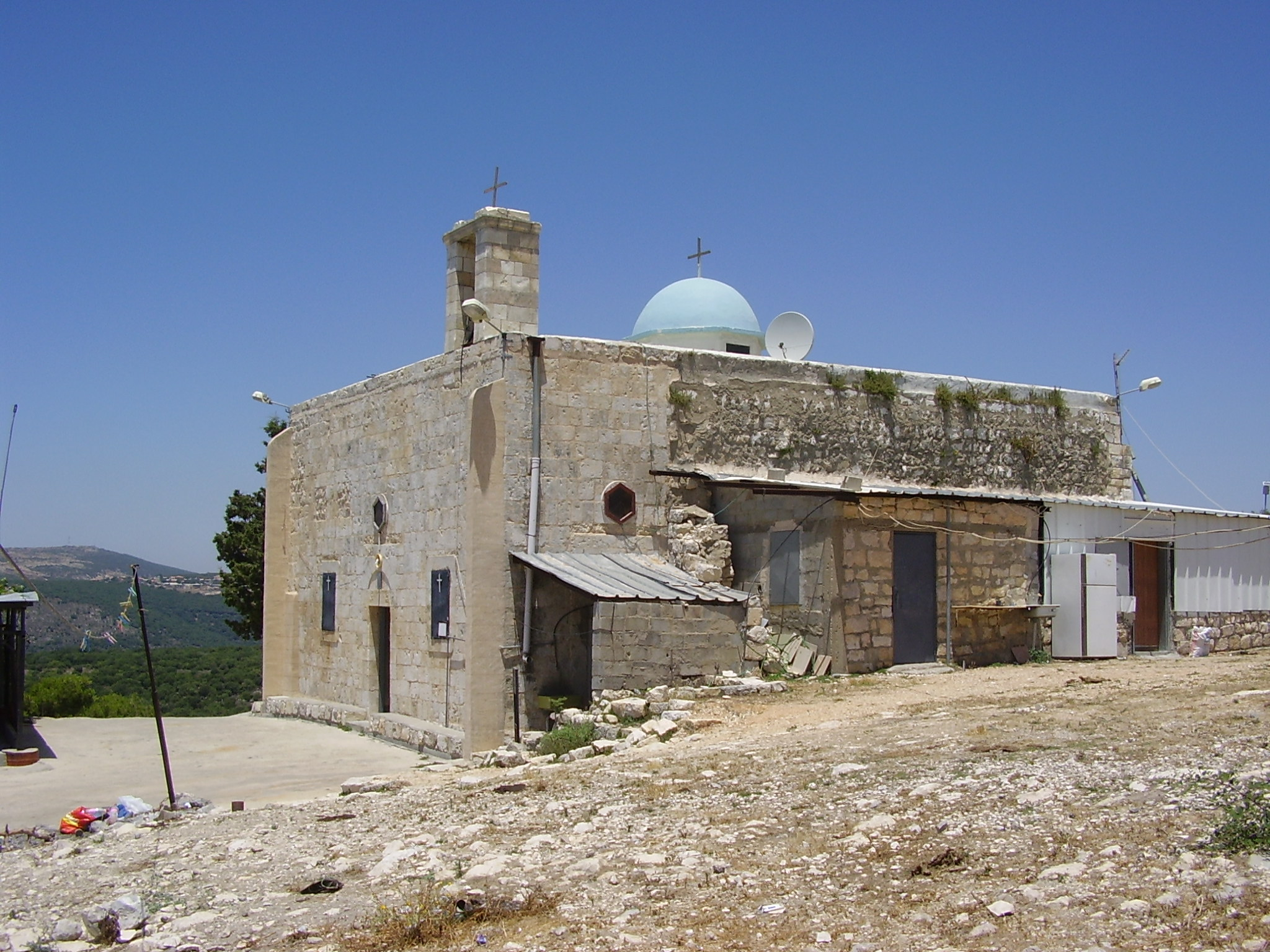 Saint Mary's Church in the Greek Orthodox village of Iqrit